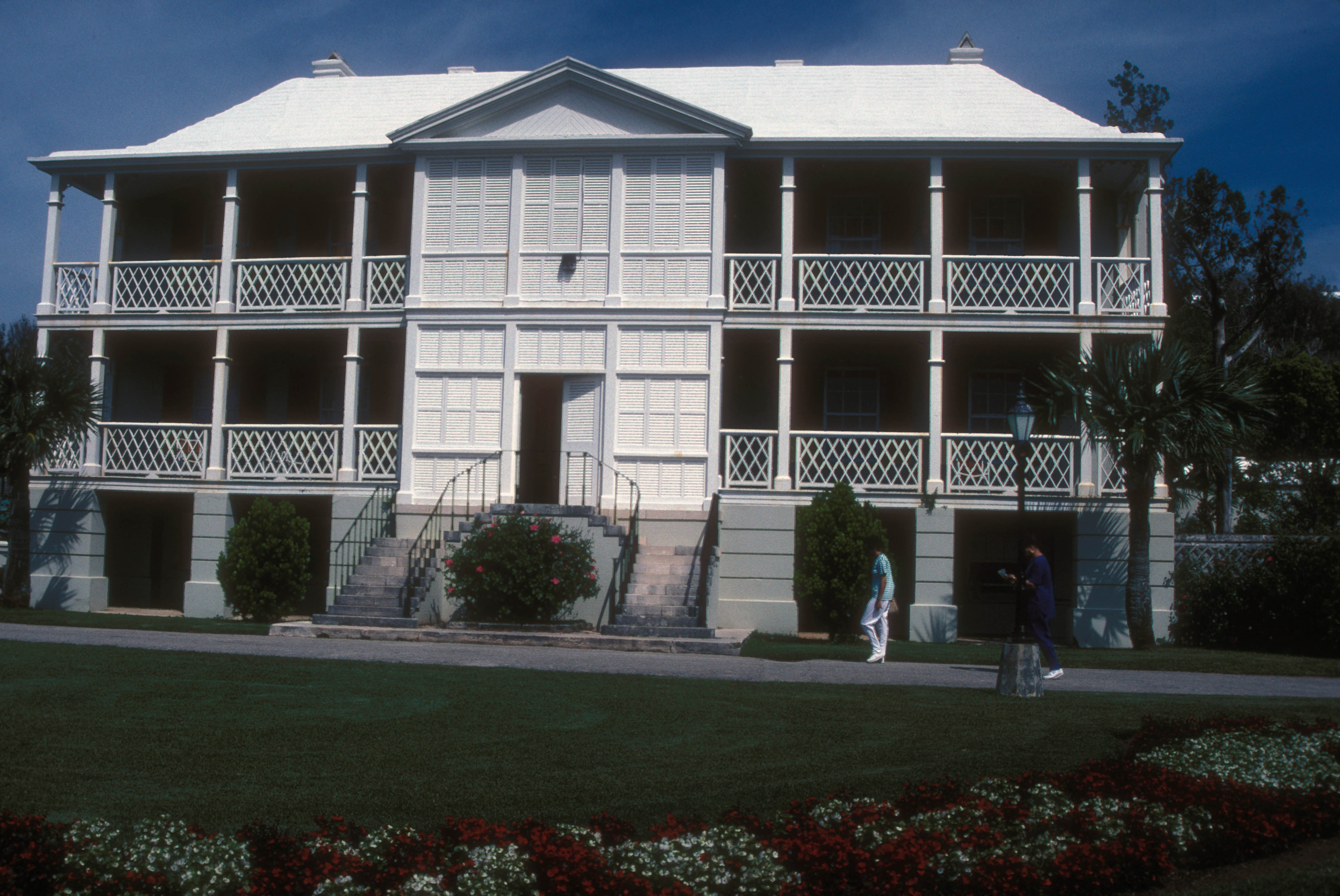 Camden, built in the first half of the 18th century; noted for its cedar furniture; located on the grounds of the Bermuda Botanical Gardens